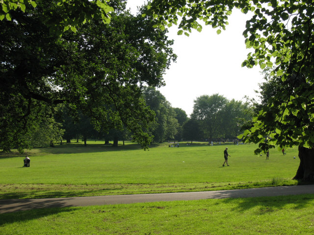 Mayow Park Mayow Park, originally Sydenham Recreation Ground, is Lewisham borough's oldest municipal park, opened in 1878. The Rev W Taylor Jones (a local headmaster) acquired the land for the park.